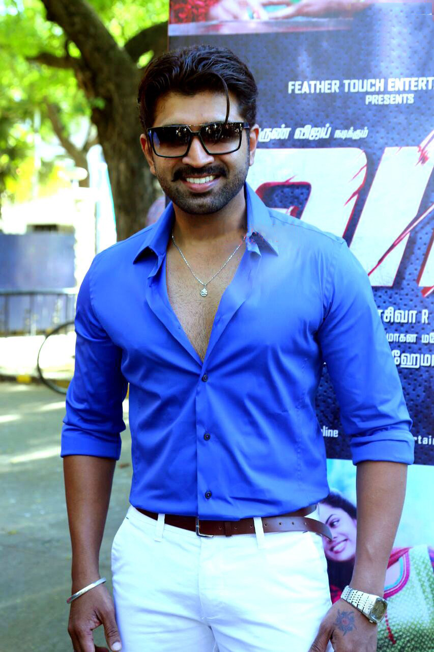 Actor Arun Vijay at Vaa Press Meet